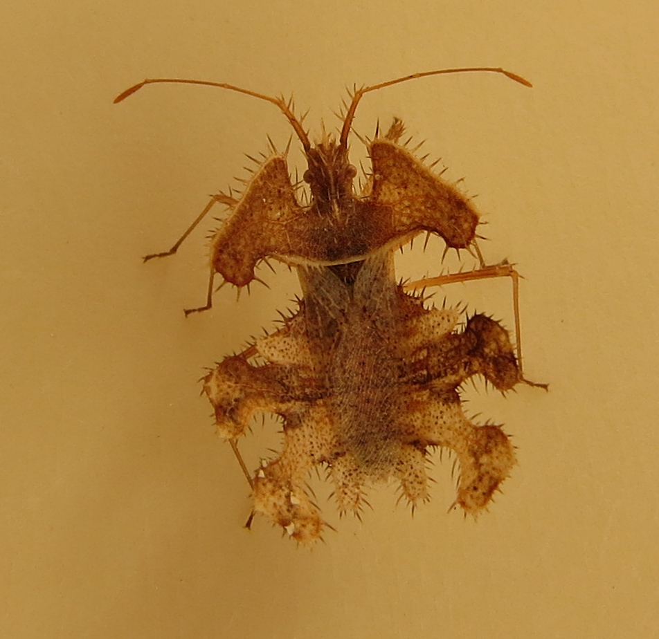 Unidentified species of Pephricus. Body length about 1 cm.